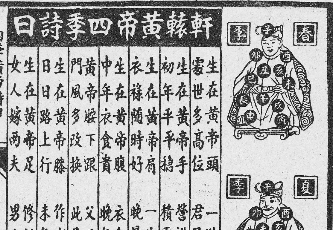 An incomplete scanned section of a page from the ancient Tung shing. This has to do with a section supposedly from the Yellow Emperor, but is definitely not written by the emperor himself. Section is called "Yellow emperor's poem and Four season" (軒轅黃帝四季詩日)